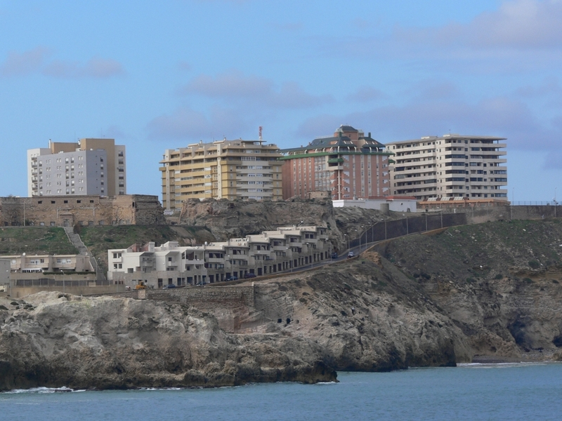 Buildings near the coast of Melilla, in Spain.